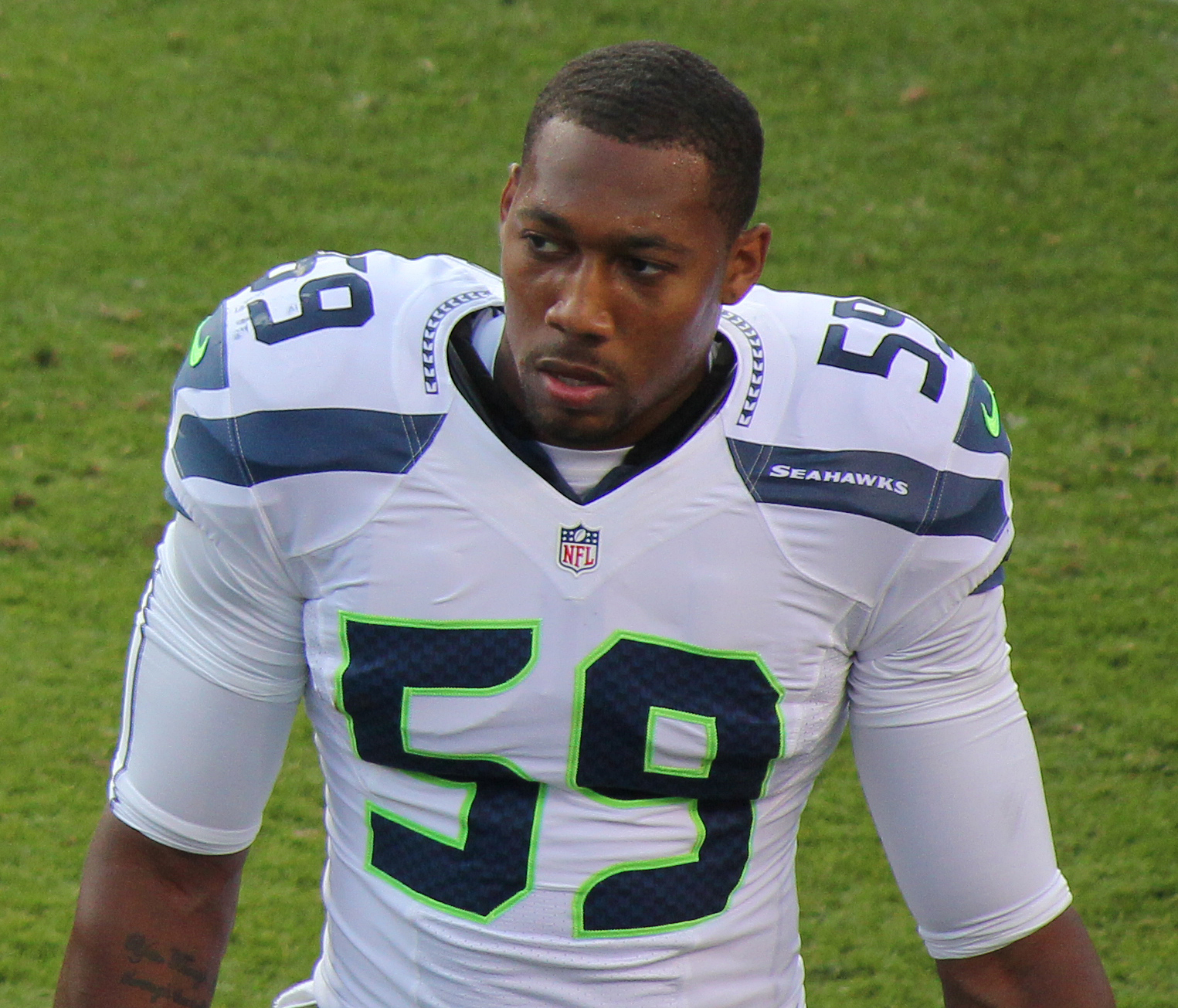 Korey Toomer, a player on the National Football League.